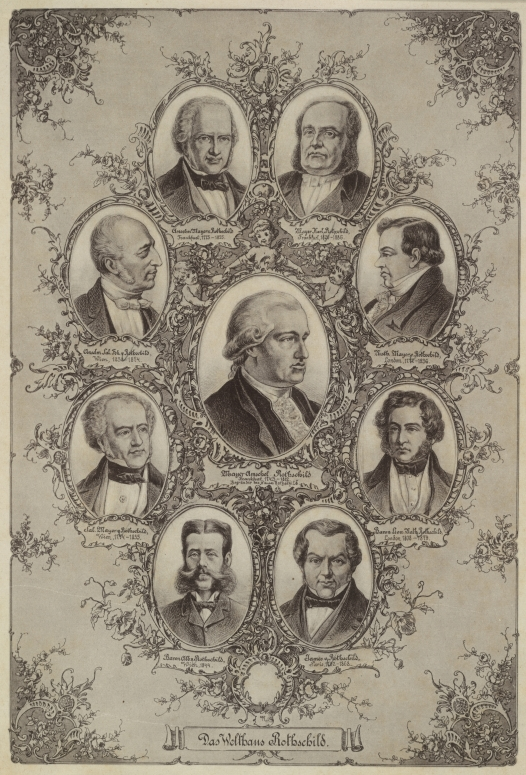 Das Welthaus Rothschild. (The World of the Rothschilds) Mayer Amschel Rothschild with other members of his family.The depicted family members with the picture caption of the original – (clockwise): Mayer Karl Rothschild, Frankfurt, 1820–1866. Nath. Mayer v. Rothschild, London, 1877–1836. Baron Lion. Nath. Rothschild, London, 1808–1879. James v. Rothschild, Paris, 1792–1868. Baron Alb. v. Rothschild, Wien, 1844. Sal. Mayer v. Rothschild, Wien, 1744–1855. Anselm Sal. Frh. v. Rothschild, Wien, 1830 [sic] –1874. Anselm [sic] Mayer v. Rothschild, Frankfurt, 1773–1855. In the middle: Mayer Amschel Rothschild Frankfurt, 1745–1812, Begründer des Hauses Rothschild.